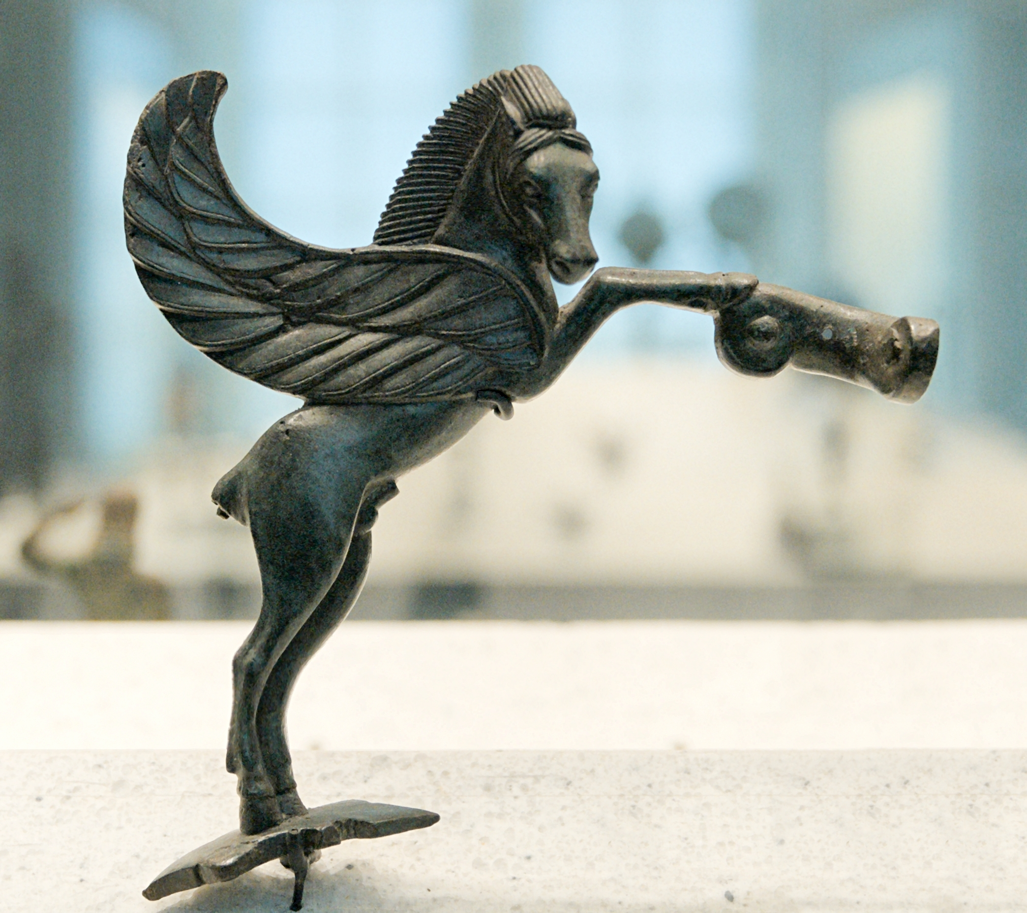 Winged horse, used to decorate a tool whose shape and use are unknown. Bronze figurine, made in a workshop in northwestern Greece (perhaps Ambrakia), third quarter of the 6th century BC. From Dodona in Epirus.